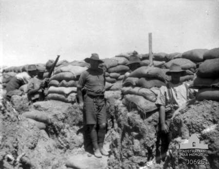 CAPTAIN RICHARDSON AND CAPTAIN BIRD, (WITH PERISCOPE,) 7TH LIGHT HORSE REGIMENT, IN THE FRONT LINE AT ANZAC IN 1915-08.